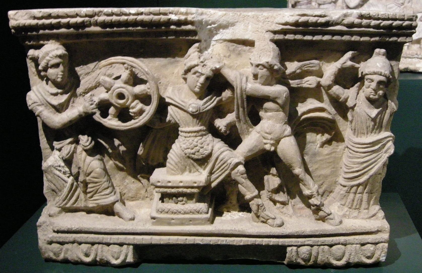 Alabaster container for a cinerary urn depicting the death of Myrtilus, Etruscan, from the Museo guarnacci (MG 215). Cropped version of the original from Wikimedia Commons